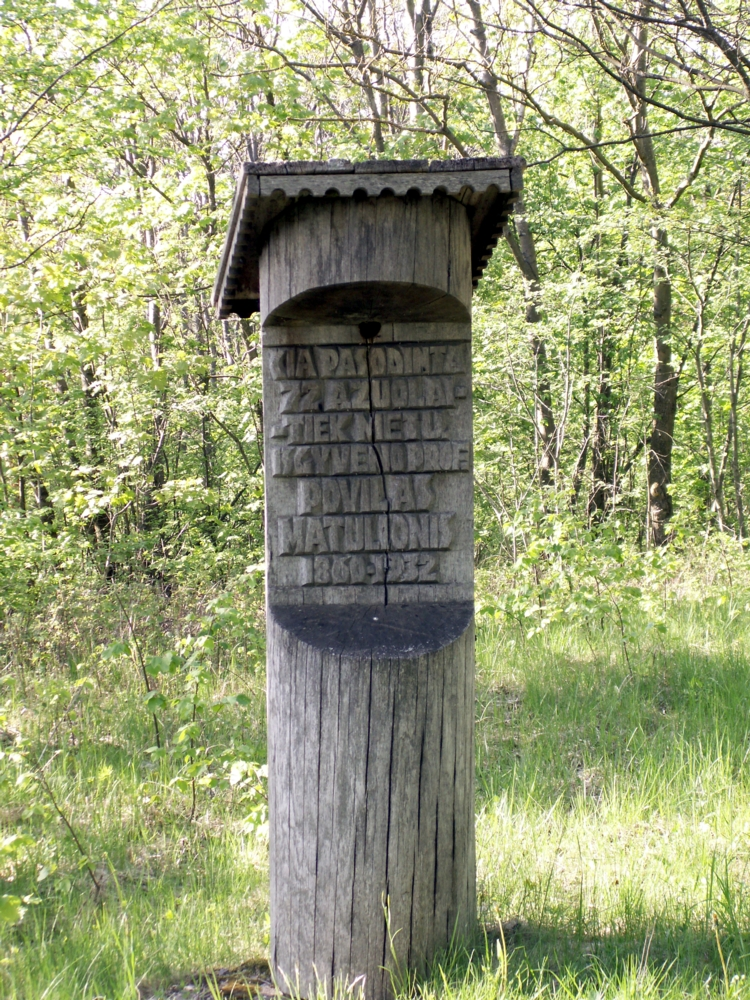 Grave of Povilas Matulionis, Aleksandrija, Šiauliai district, Lithuania